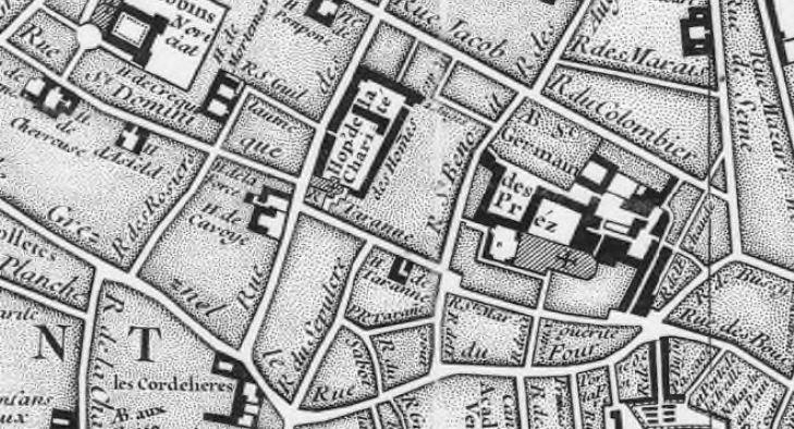 Hôtel de la Force, or Hotel Selvois, (rented) house of the duke of Saint-Simon, "rue Taran(n)e" was actually situated rue des Saint Pères. It was broken down when the rue Taranne was integrated in the Boulevard Saint-Germain. Roussel, 1730, Paris, ses fauxbourgs et ses environs [..]